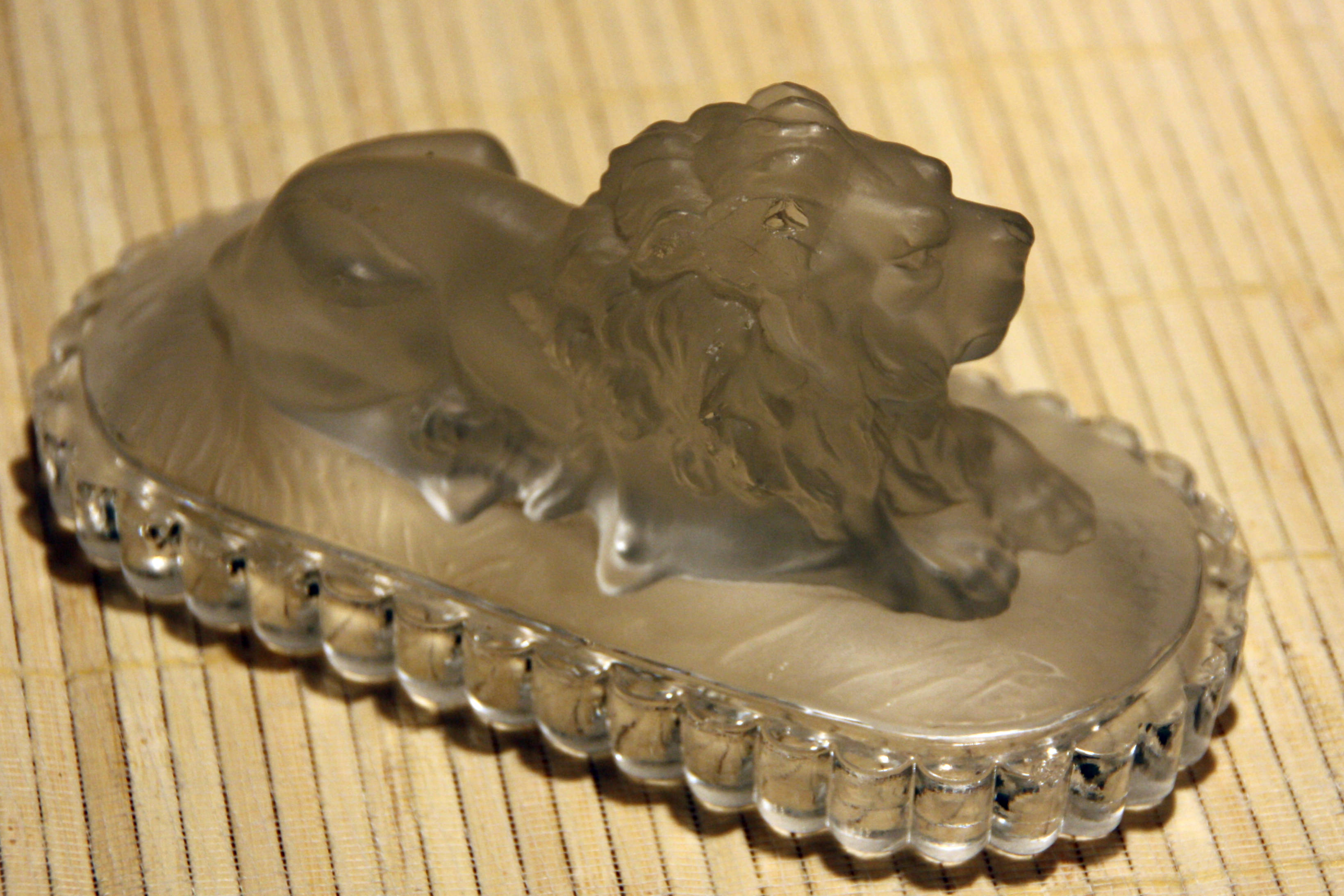 A glass-lion as paperweight